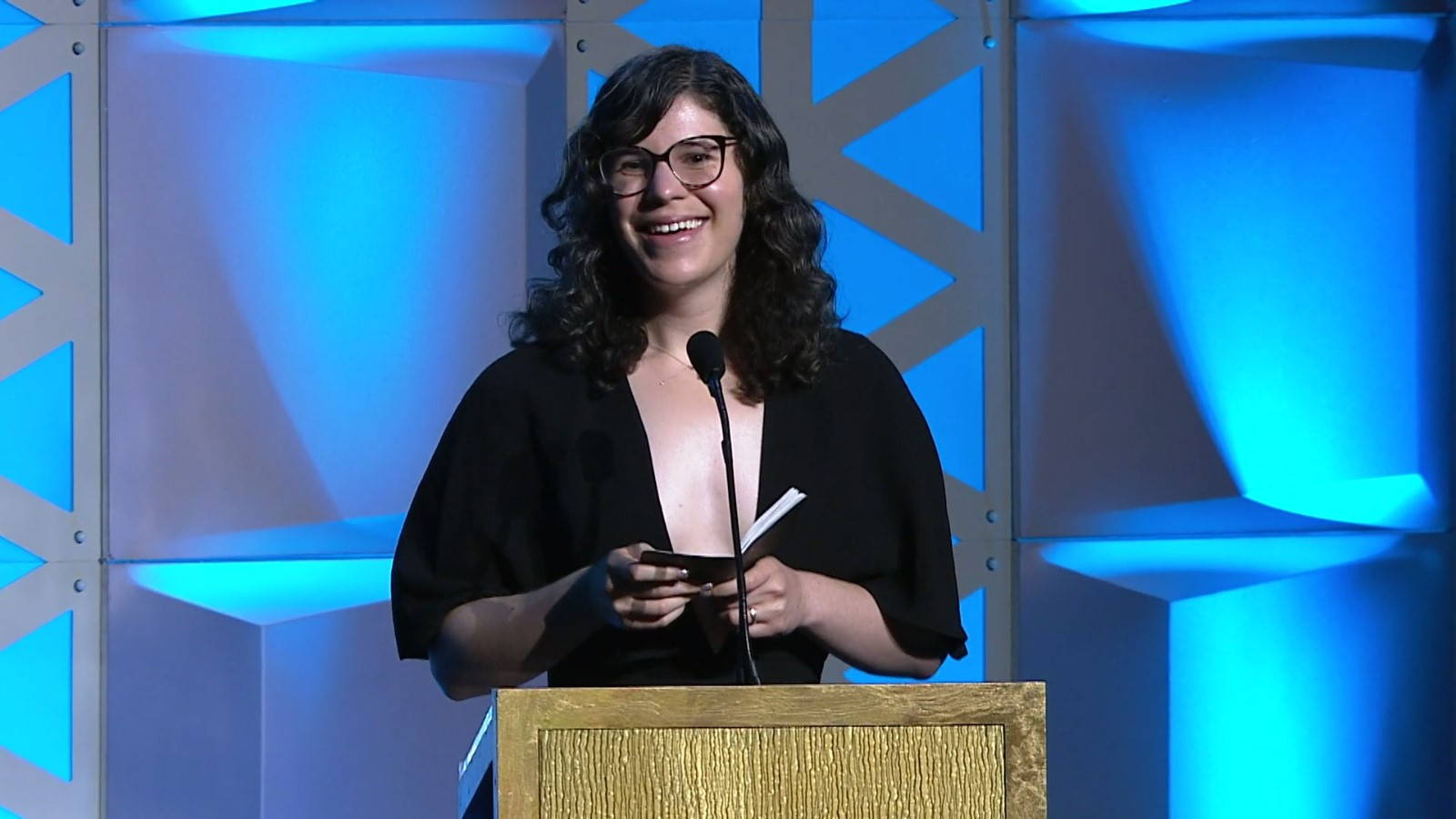 On its surface, Rebecca Sugar’s animated series develops a complex mythology centering around the Crystal Gems—“polymorphic sentient rocks” who protect young Steven and his human friends from cosmic threats. But in this earnest fantasy epic and superhero saga, empathy is perhaps the most important superpower, something our real-world human society needs now more than ever.